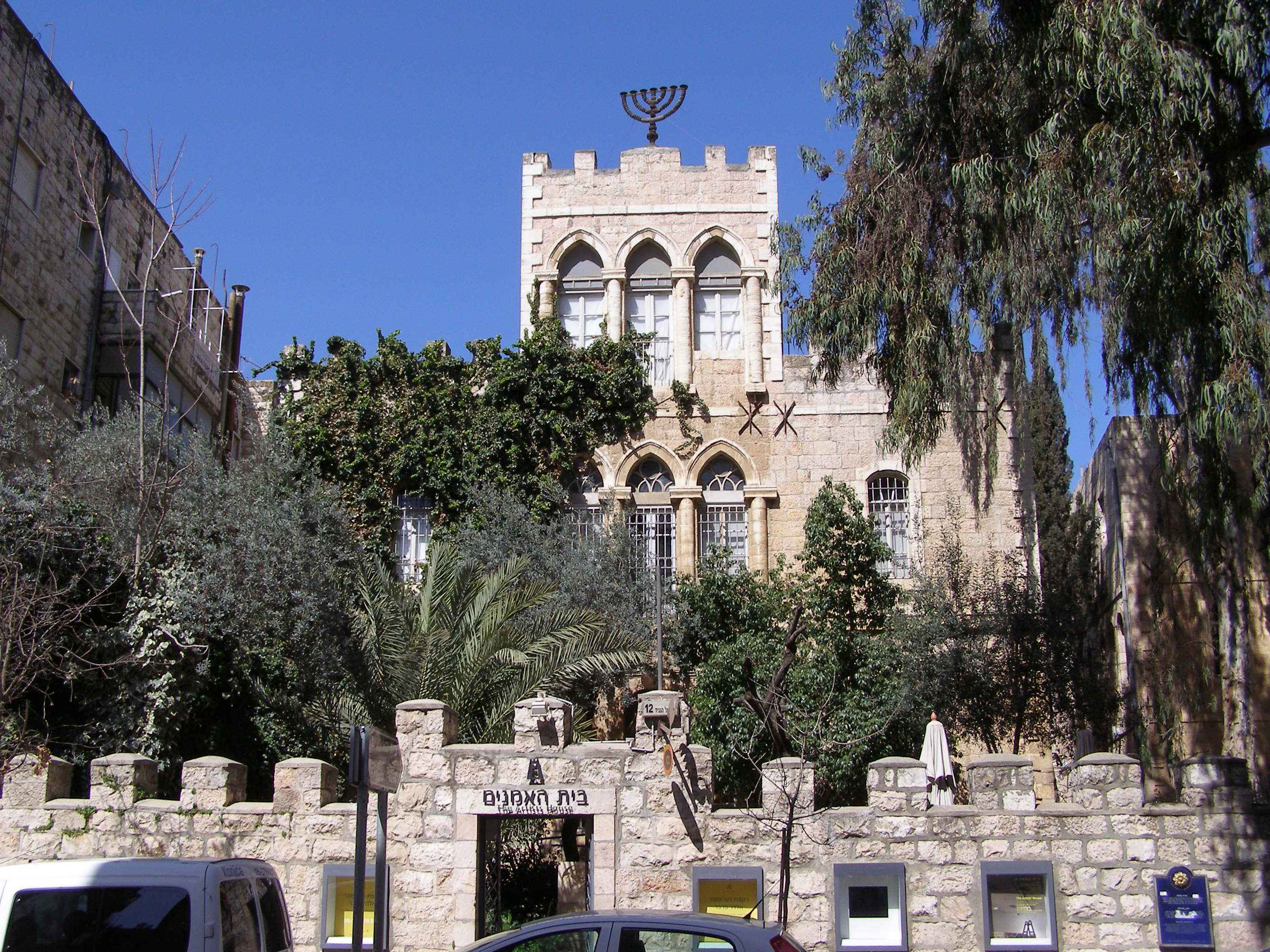 Jerusalem - Bezalel Artists' House OLYMPUS DIGITAL CAMERA